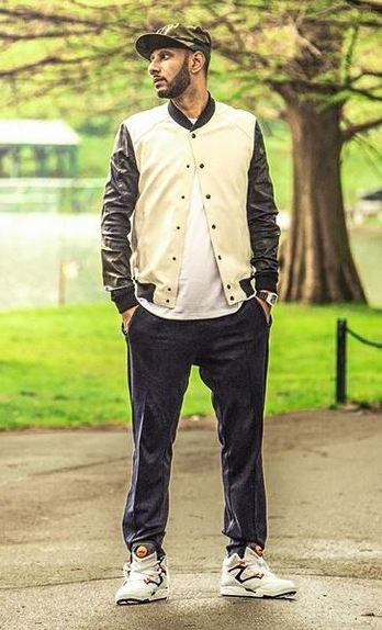 Swizz Beatz and Reebok Classic